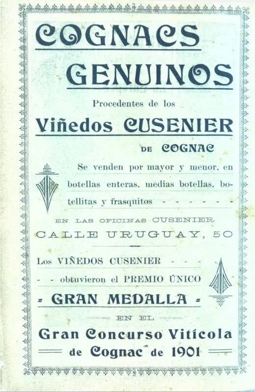 Advertisement for French liquor firm Cusenier